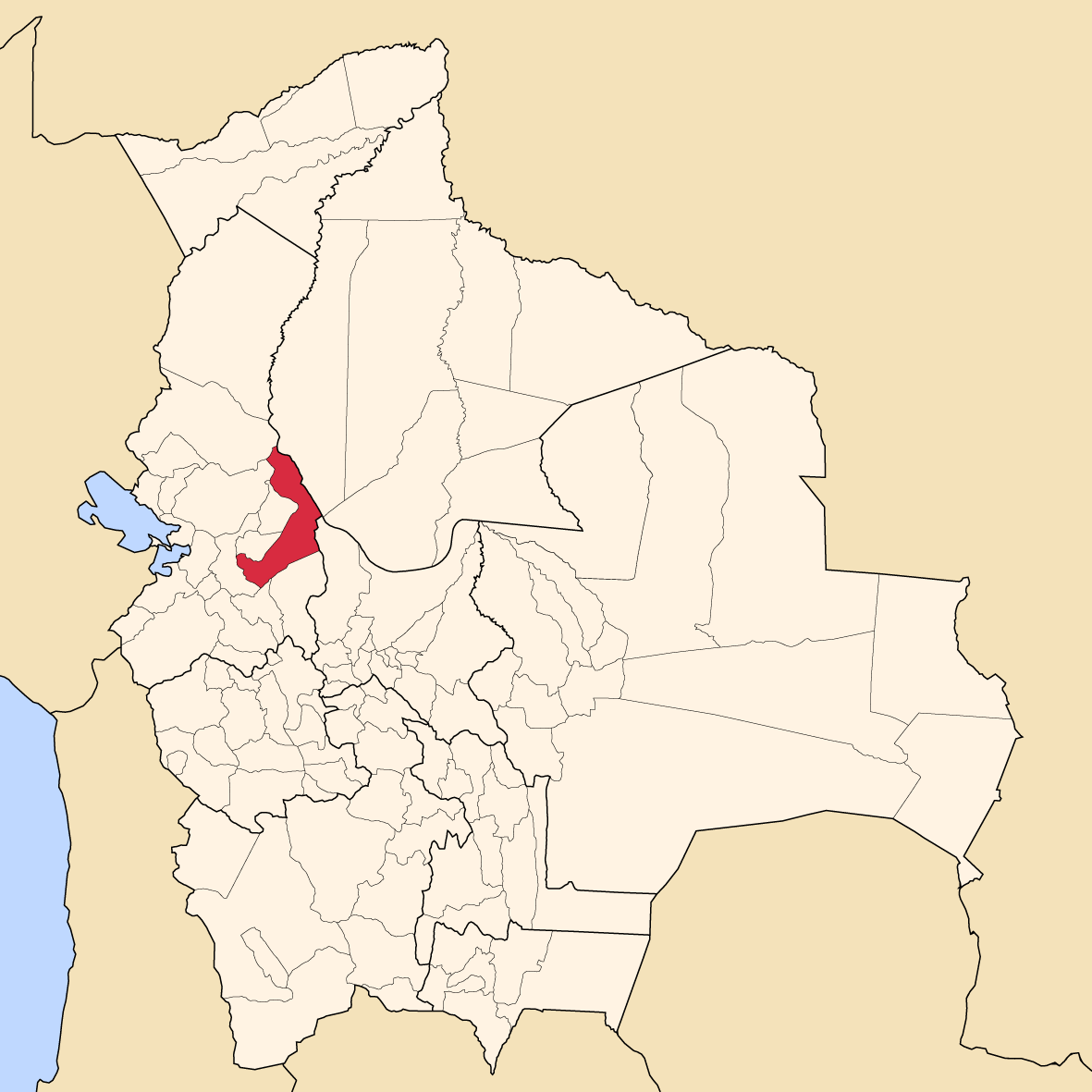 Map of Bolivia showing Sur Yungas province, La Paz